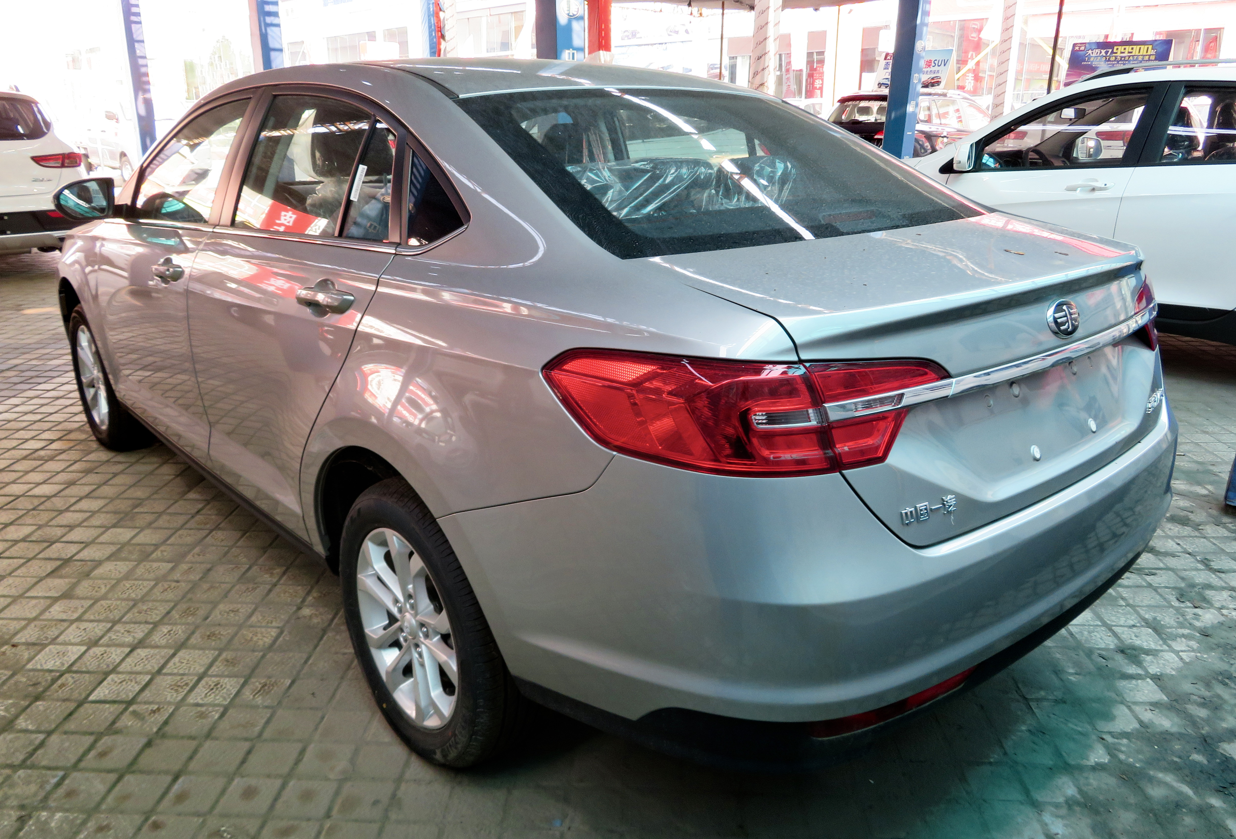 A 2018 FAW-Junpai A50 photographed at Guanlinzhen, in Luoyang, Henan province, China